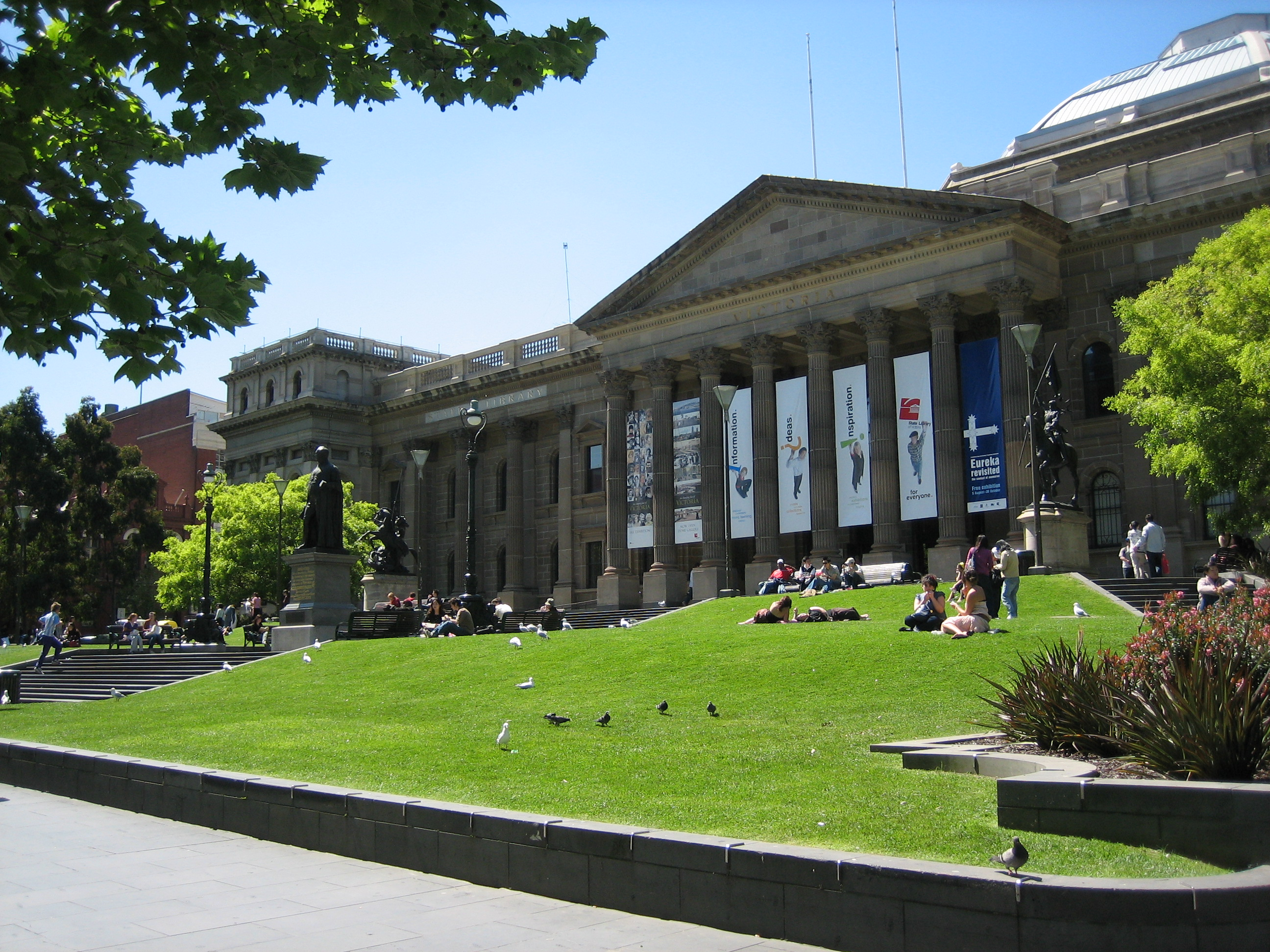 State Library of Victoria Photographer: Simon Laird